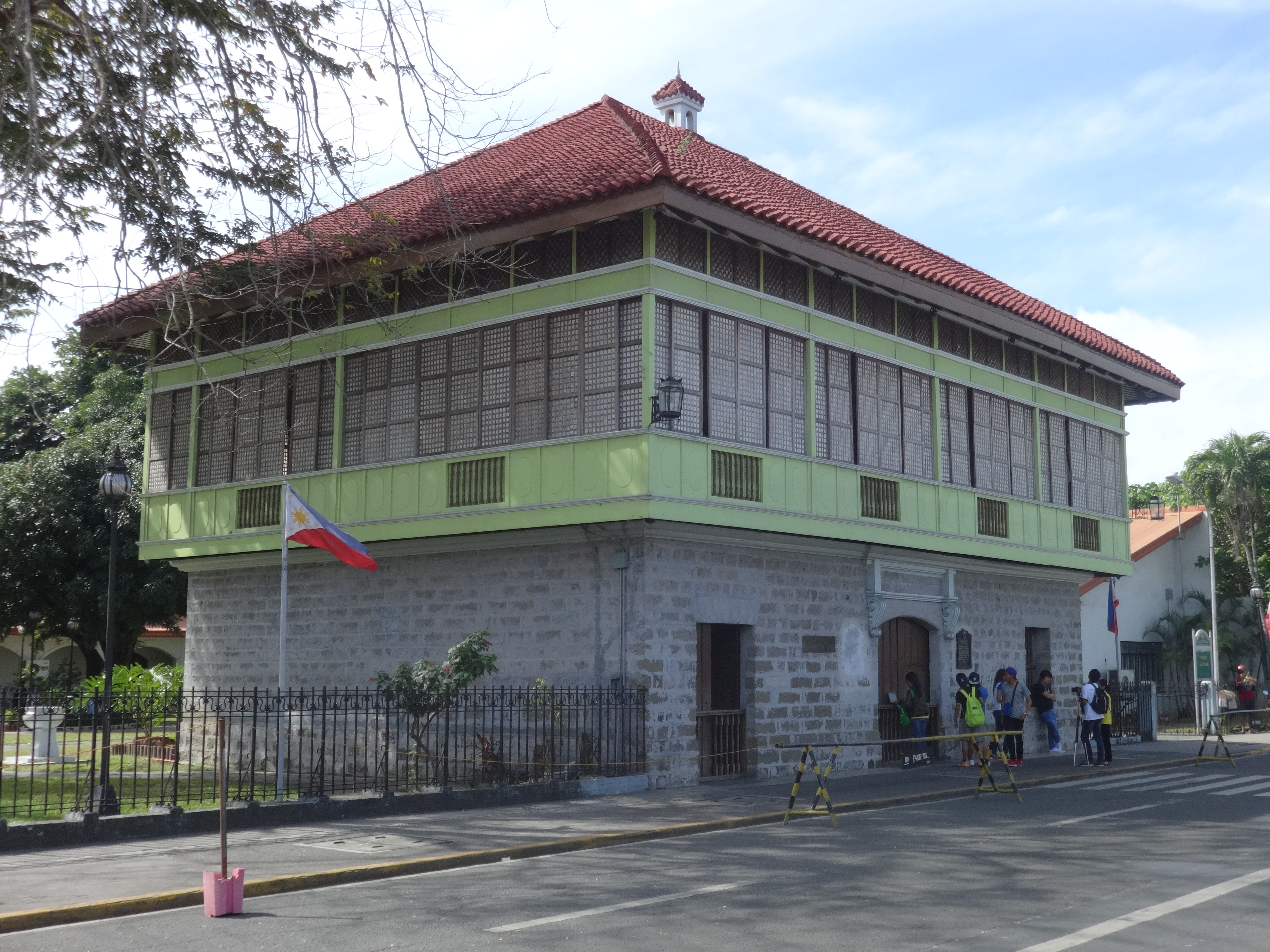 Rizal Shrine at Rizal Street, Poblacion, Calamba City, Laguna. This historical site is known for being the home of Philippines' national martyr Jose Rizal.